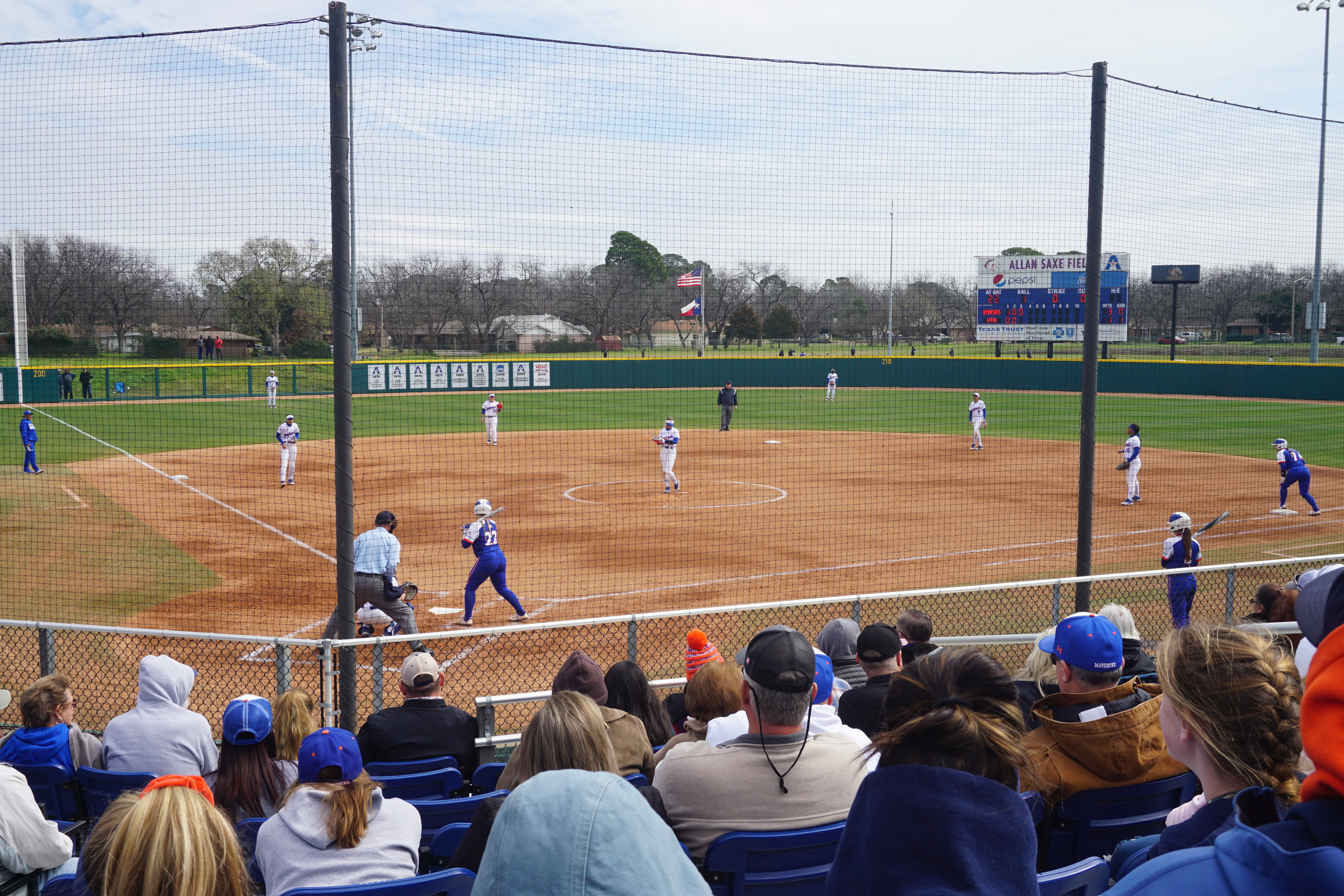 In-game action during the Kansas Jayhawks vs. UT Arlington Mavericks softball game at Allan Saxe Field in Arlington, Texas (United States). Kansas won 8–3.